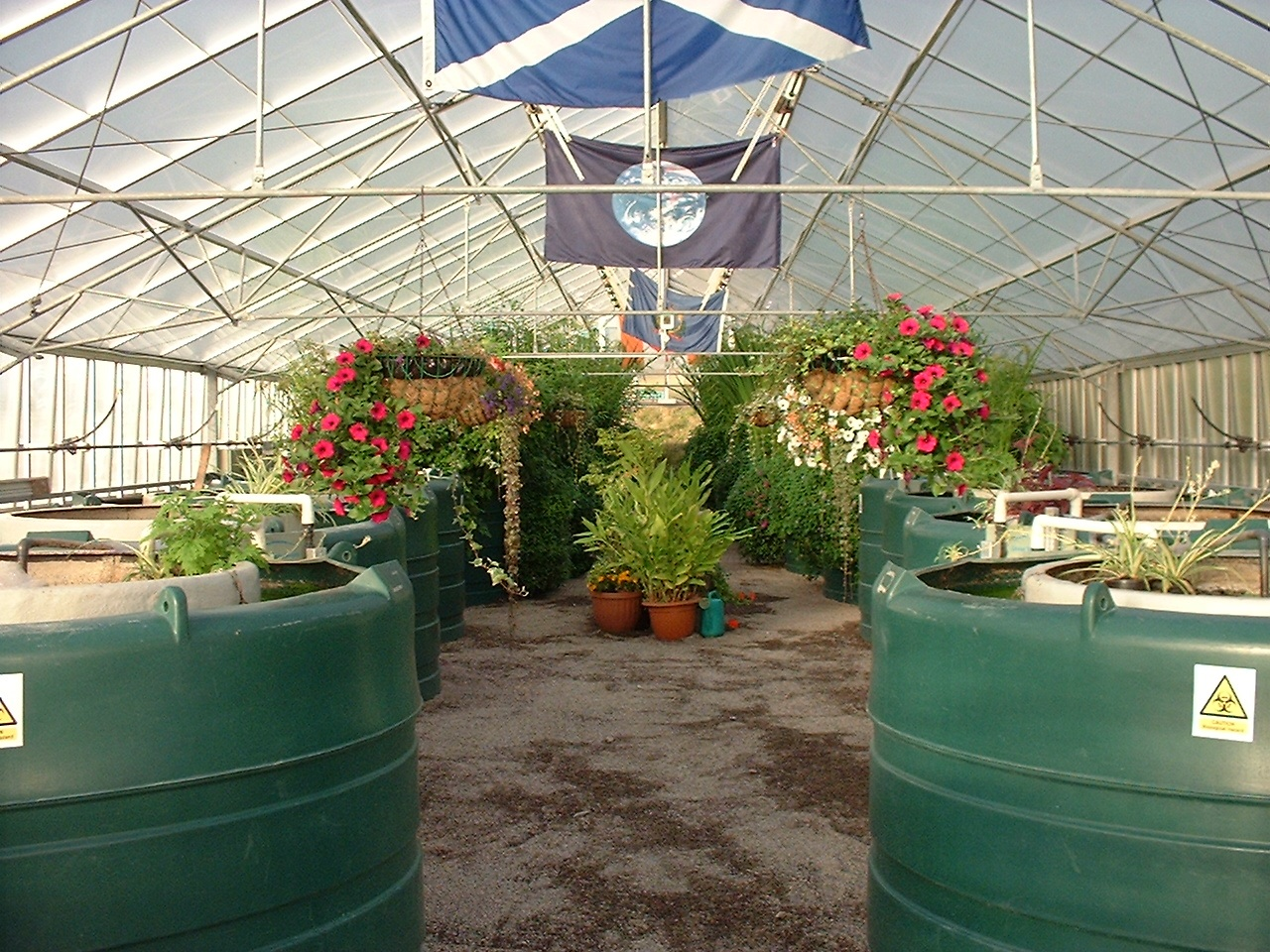 "Living Machine" waste water treatment plant, located at Findhorn Ecovillage, Scotland